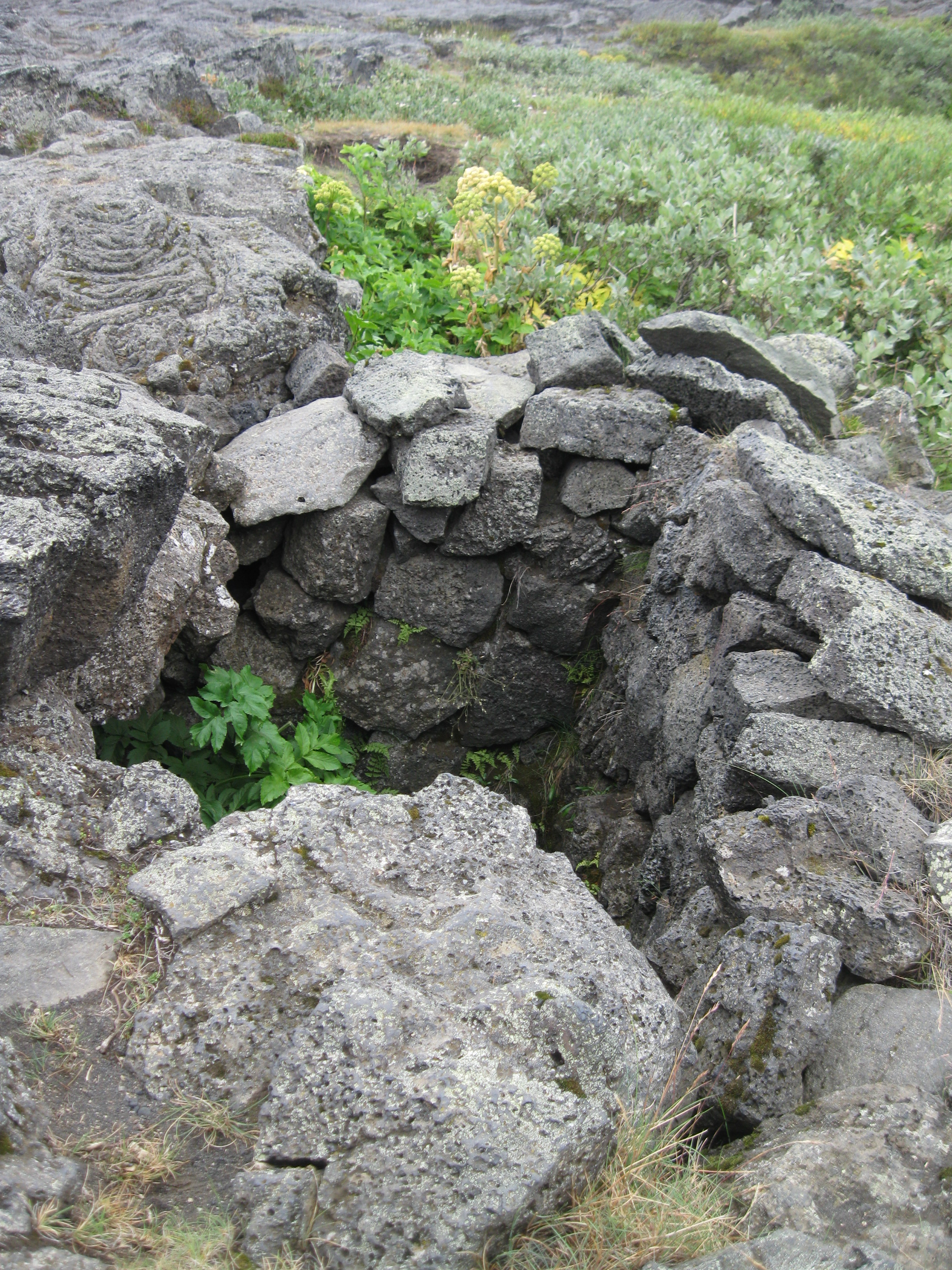 The outlaw Fjalla-Eyvindur stayed in Herðubreiðarlindir during the winter of 1774-1775. He said it was the worst winter of his life as an outlaw. He had no fire and had to live on raw horsemeat and angelica roots. The shelter was rebuilt in 1922.